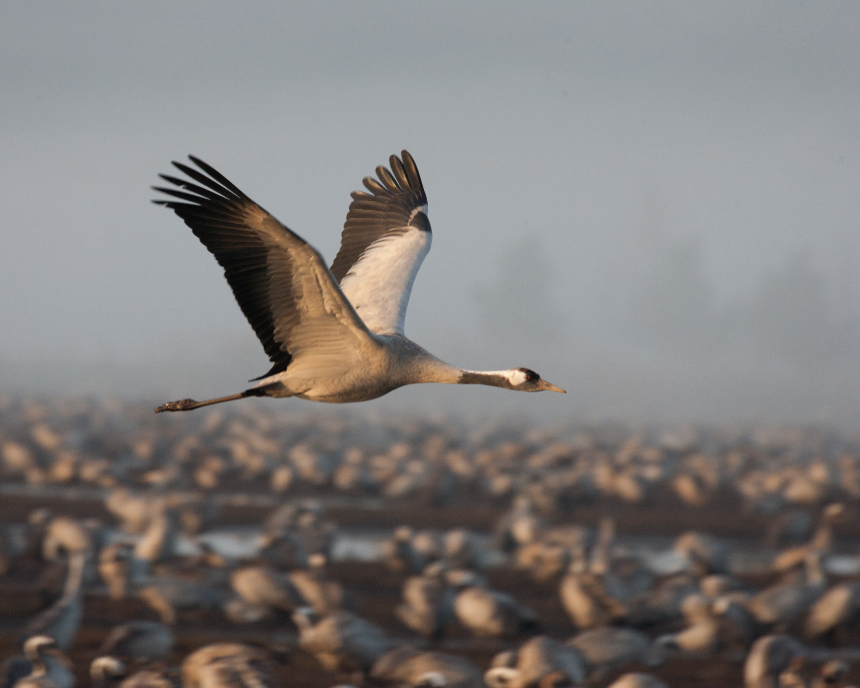 Common crane at Hula Valley in Israel